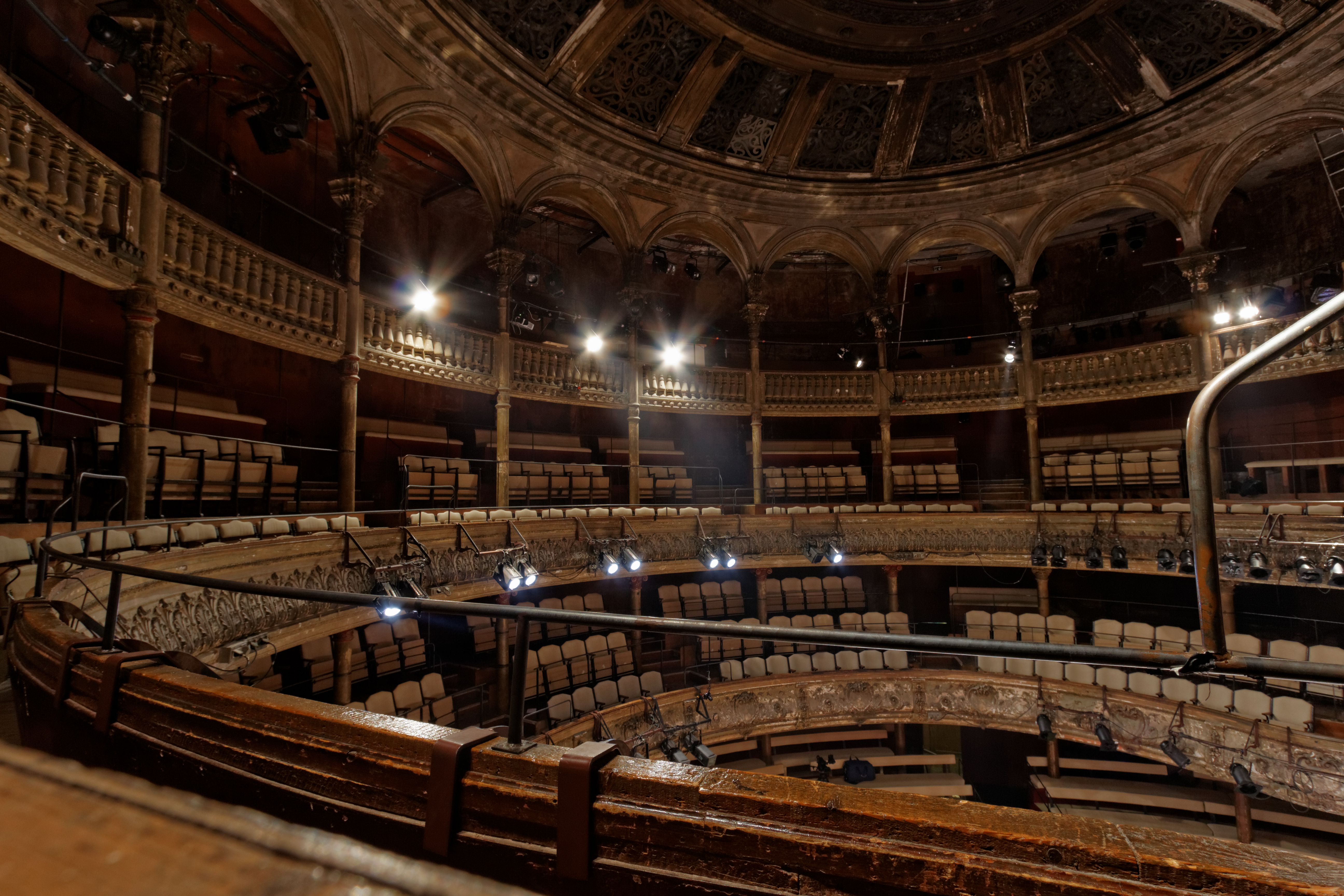 interior of the Théâtre des Bouffes du Nord, in Paris